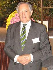 Peter Atkins at a conference in Paris